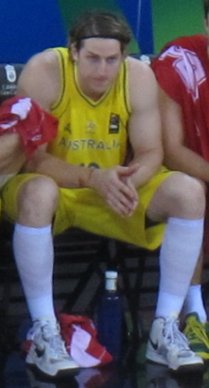 Cameron Bairstow of the Australian Boomers